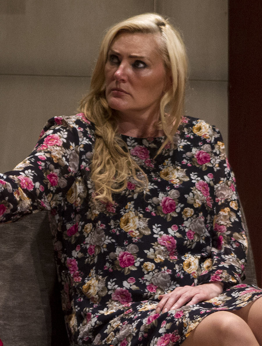 Martes 22 de Septiembre 2015. En el Teatro Benito Ju‡rez, se estreno la temporada de la puesta en escena El chico de la œltima fila del dramaturgo espa–ol Juan Mayorga, bajo la direcci—n de JosŽ Mar’a Mantilla.El reparto est‡ integrado por: Anna Ciocchetti, Carlos Corona, Luis Miguel Lombana, Paloma Woolrich, Jorge Caballero y Mauro S‡nchez Navarro. Foto:Tania Victoria/ Secretar’a de Cultura